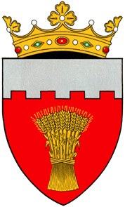 Soroca rajon coa